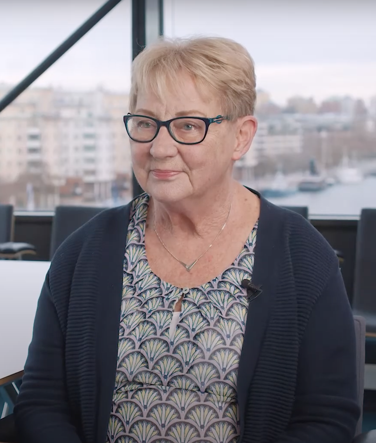 Ines Uusmann, Swedish politician. Screenshot from a video interview made by Internetmuseum 2020.